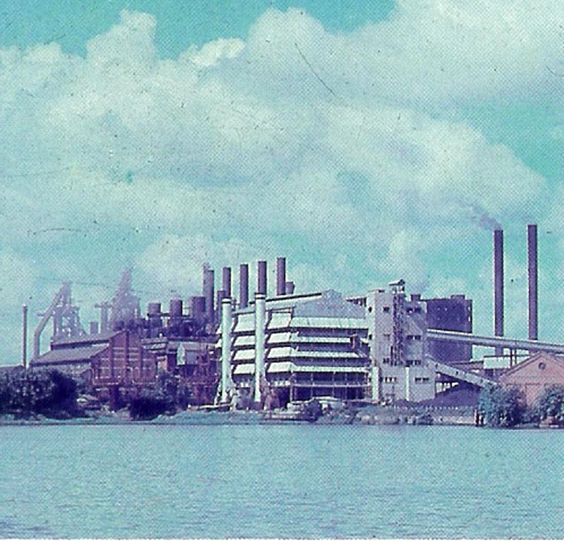 Pic courtesy IISCO PR Deptt Source: Pic taken by the Public Relations department of The Indian Iron & Stel Co. Ltd. No copyright on this photograph. The PR department supplies and allows photographs to be published.